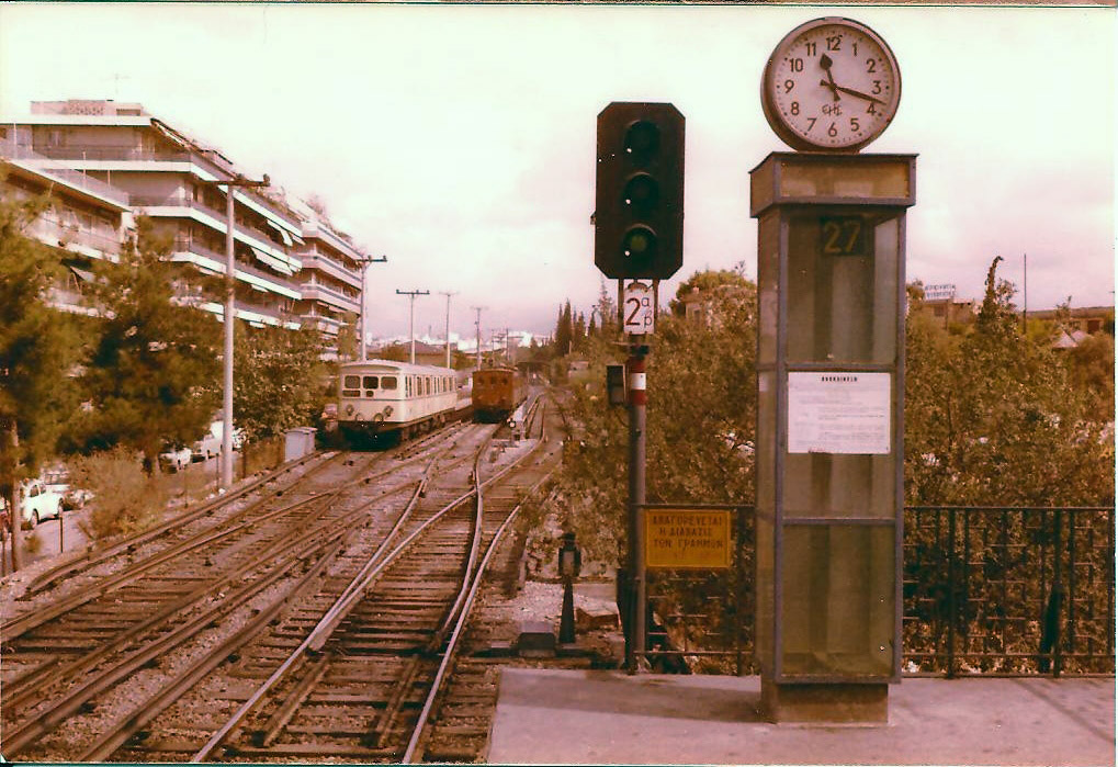 Ano Patissia station of Athens-Piraeus Electric Railways with old rolling stock